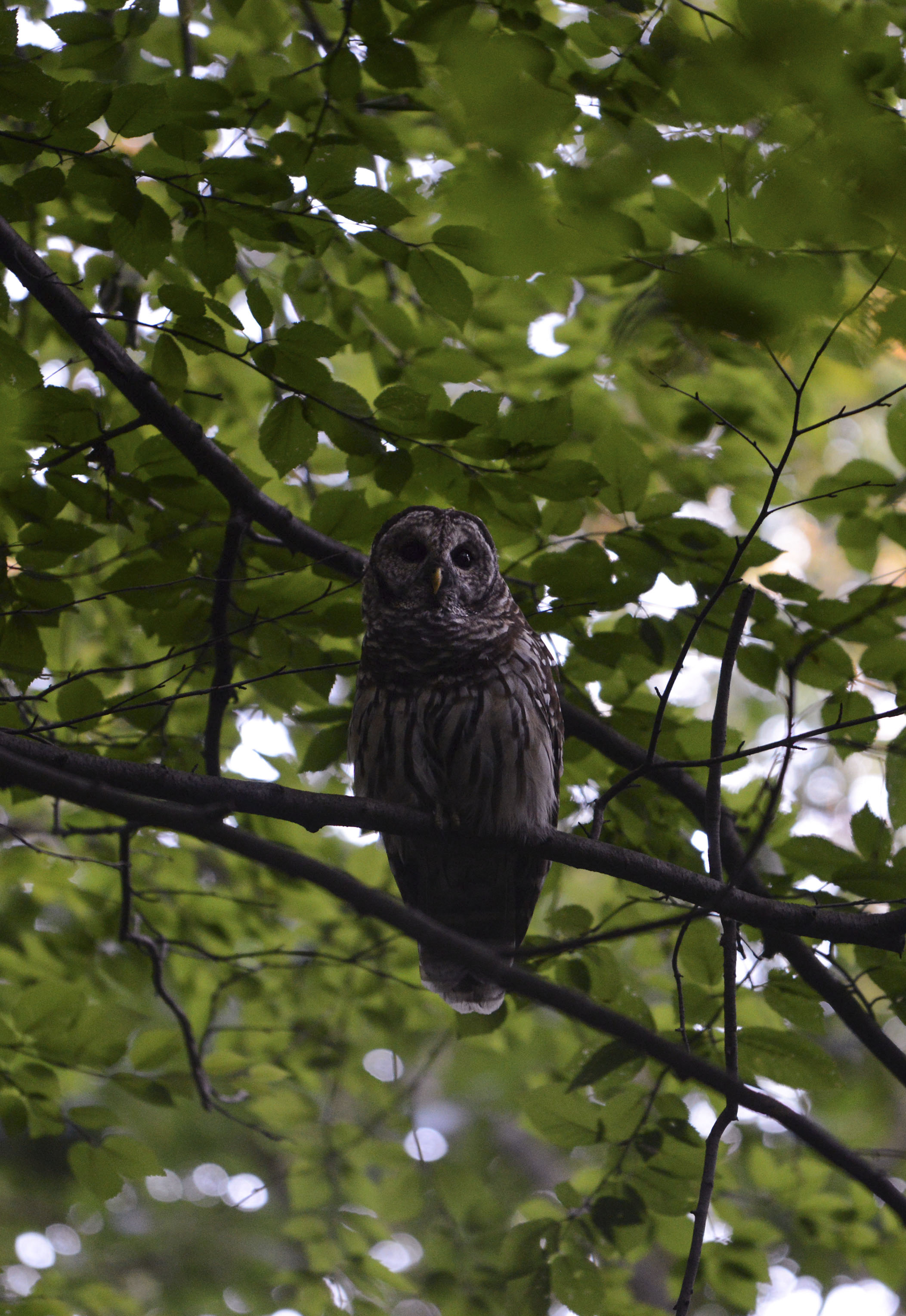 Cuyahoga Valley National Park - Ohio